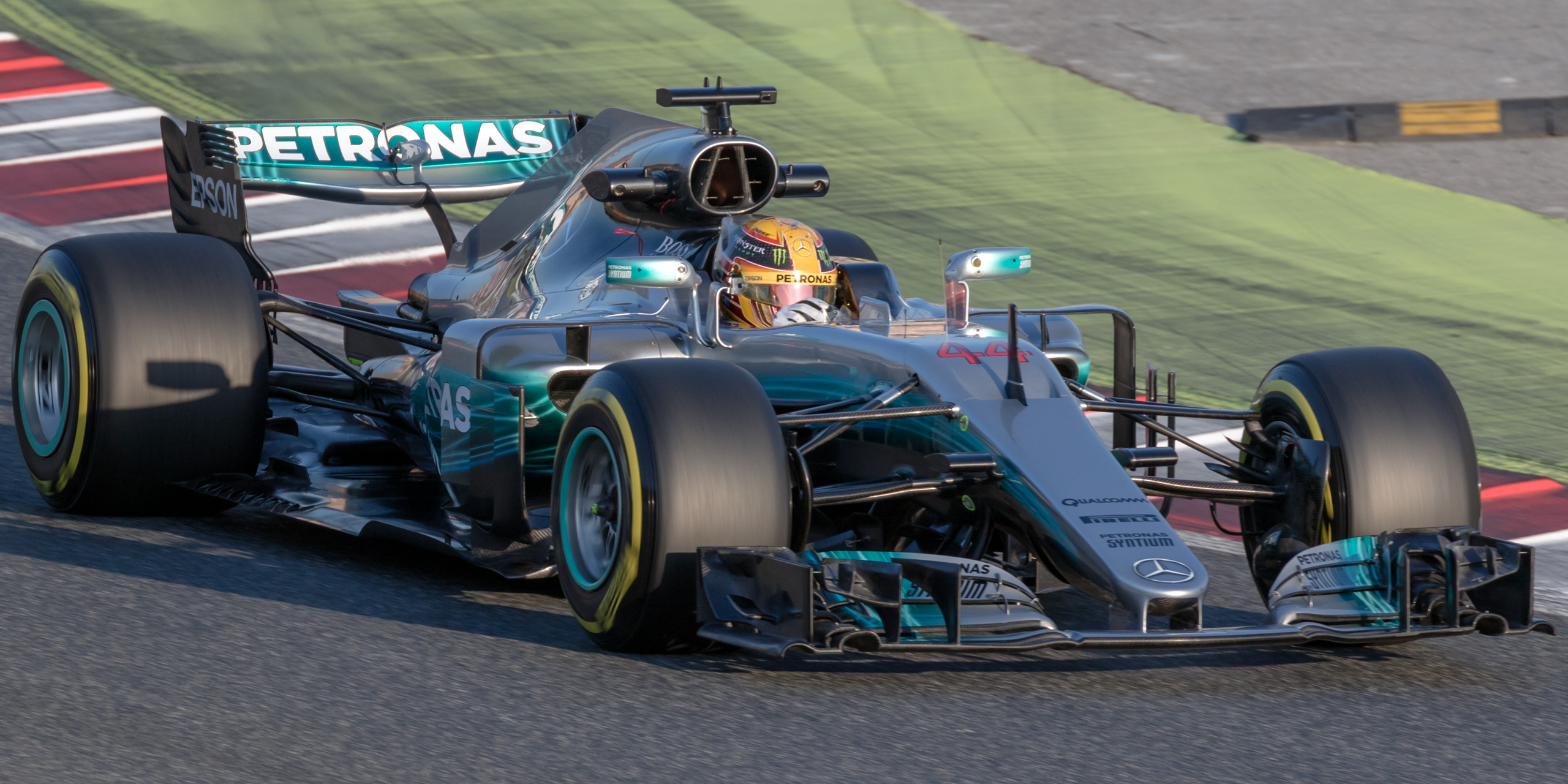 Formula One 2017 Catalonia test (27 February-2 March): Lewis Hamilton (Mercedes)